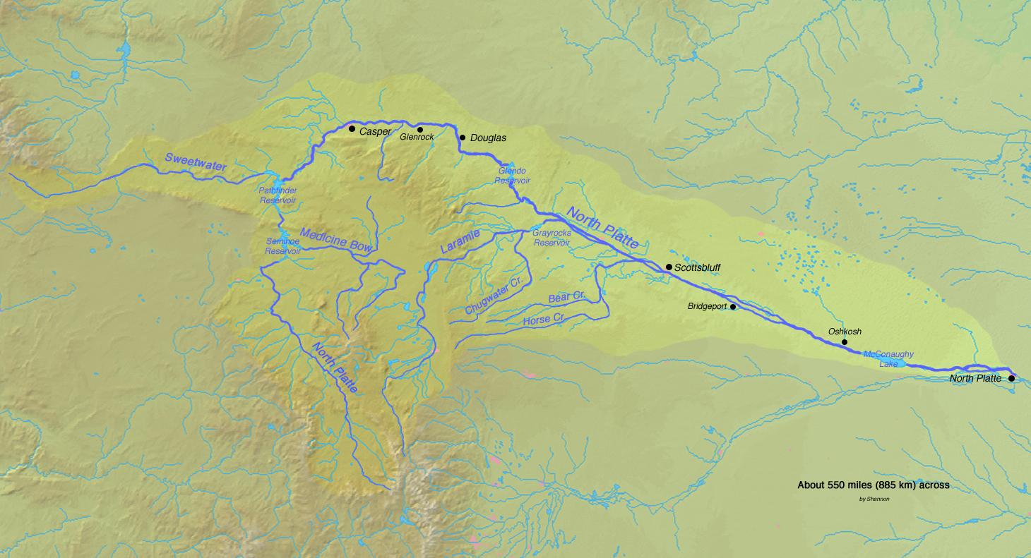 Map of the North Platte River watershed in Colorado, Wyoming and Nebraska in the central USA